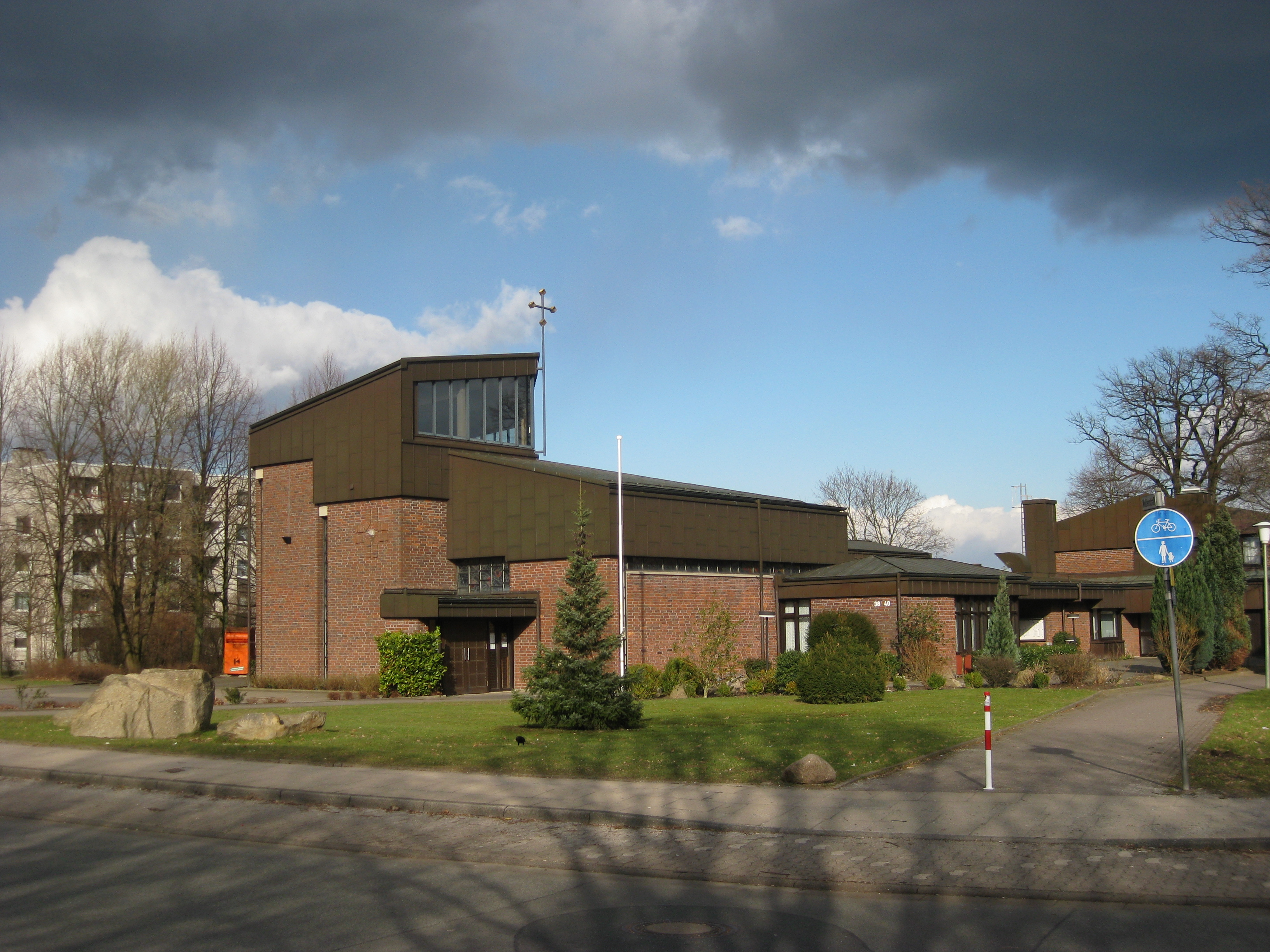 catholic parish church Maria Königin in Bielefeld-Baumheide